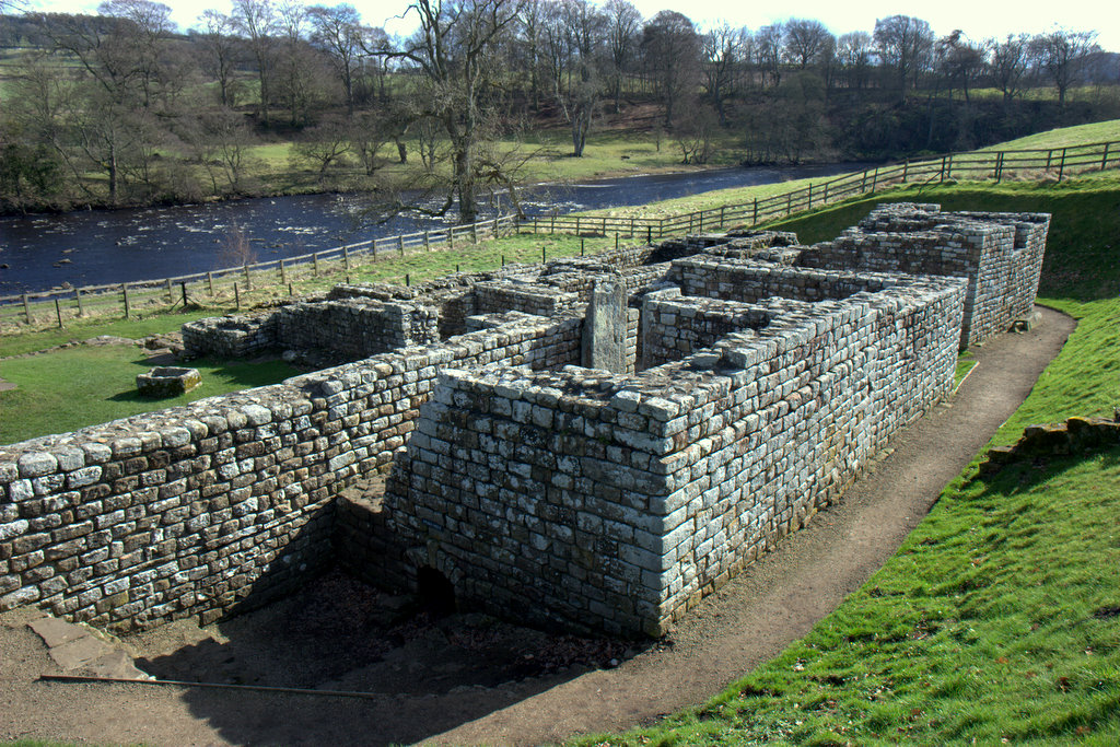 Roman Bath House